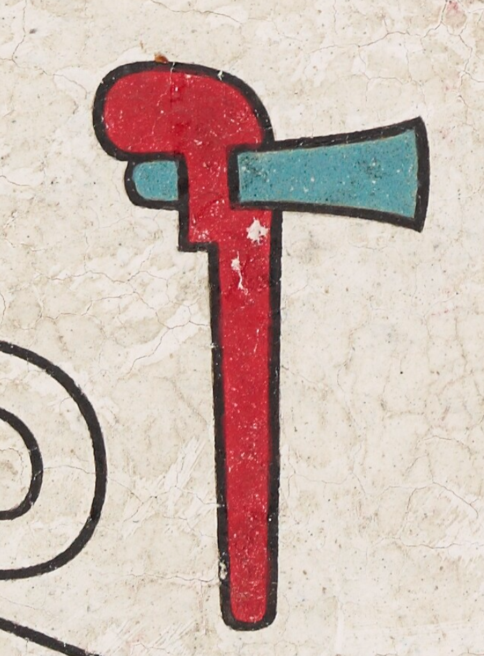 Tepoztli, Bronze axe form Mixtec culture in the Codex Laud p. 43 detail